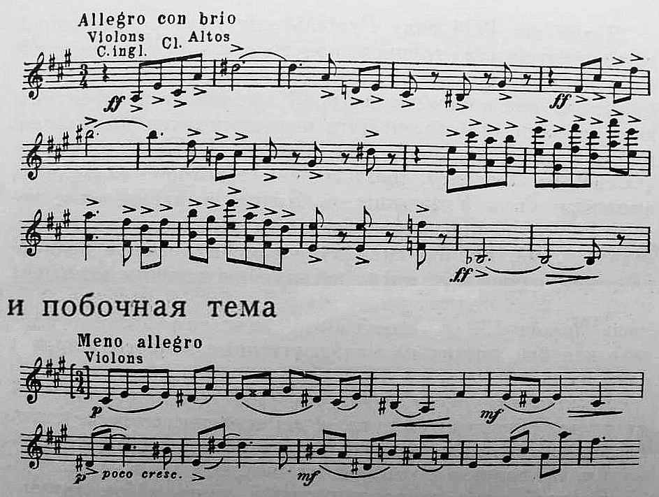 Albert Roussel - Symphonie №4 (part 1) Fragment theme 1 & 2